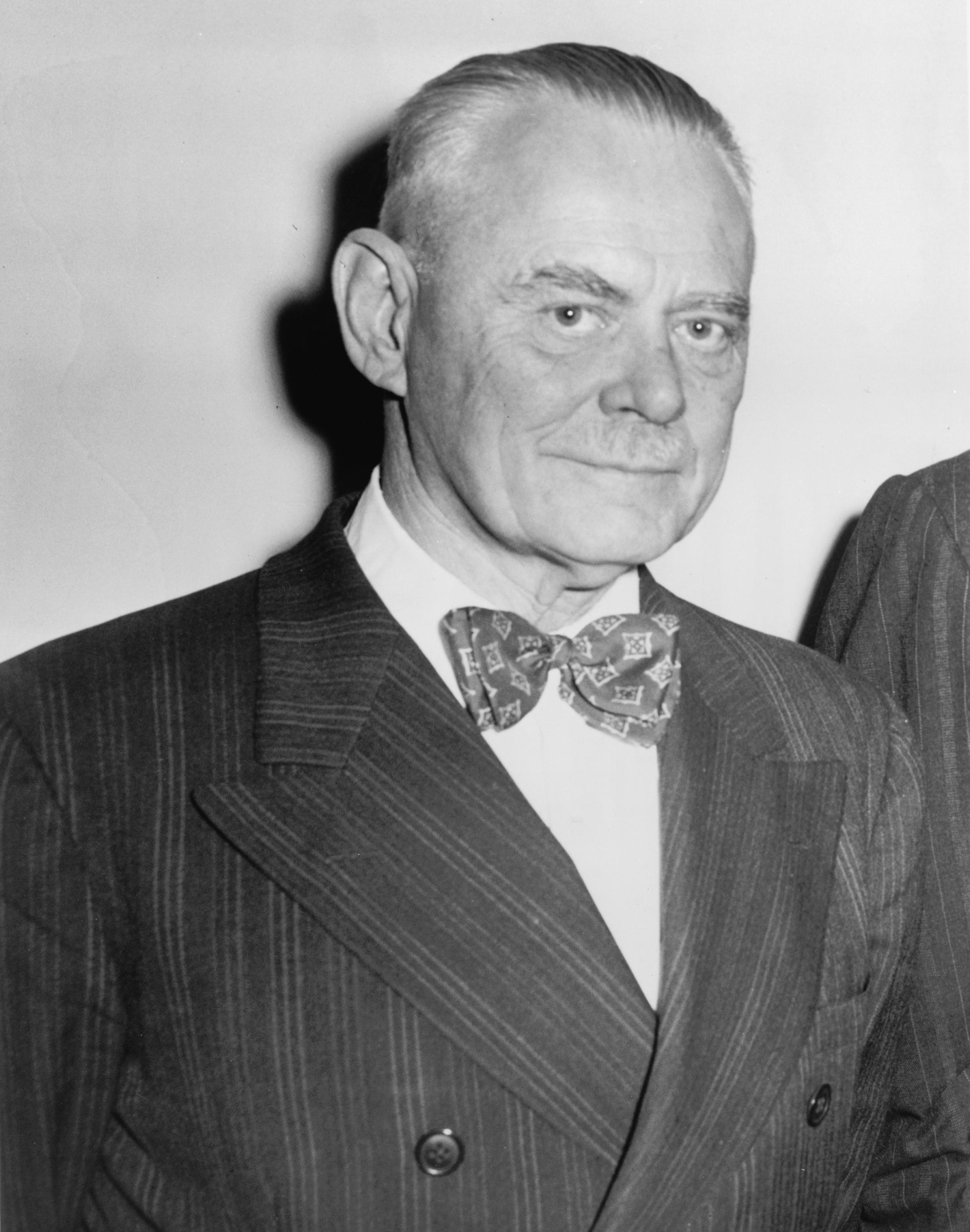 Herbert Norman Schwarzkopf was the first superintendent of the New Jersey State Police. He is best known for his involvement in the Lindbergh kidnapping case and for being the father of General H. Norman Schwarzkopf, Jr., the commander of all coalition forces for Operation Desert Shield/Storm.